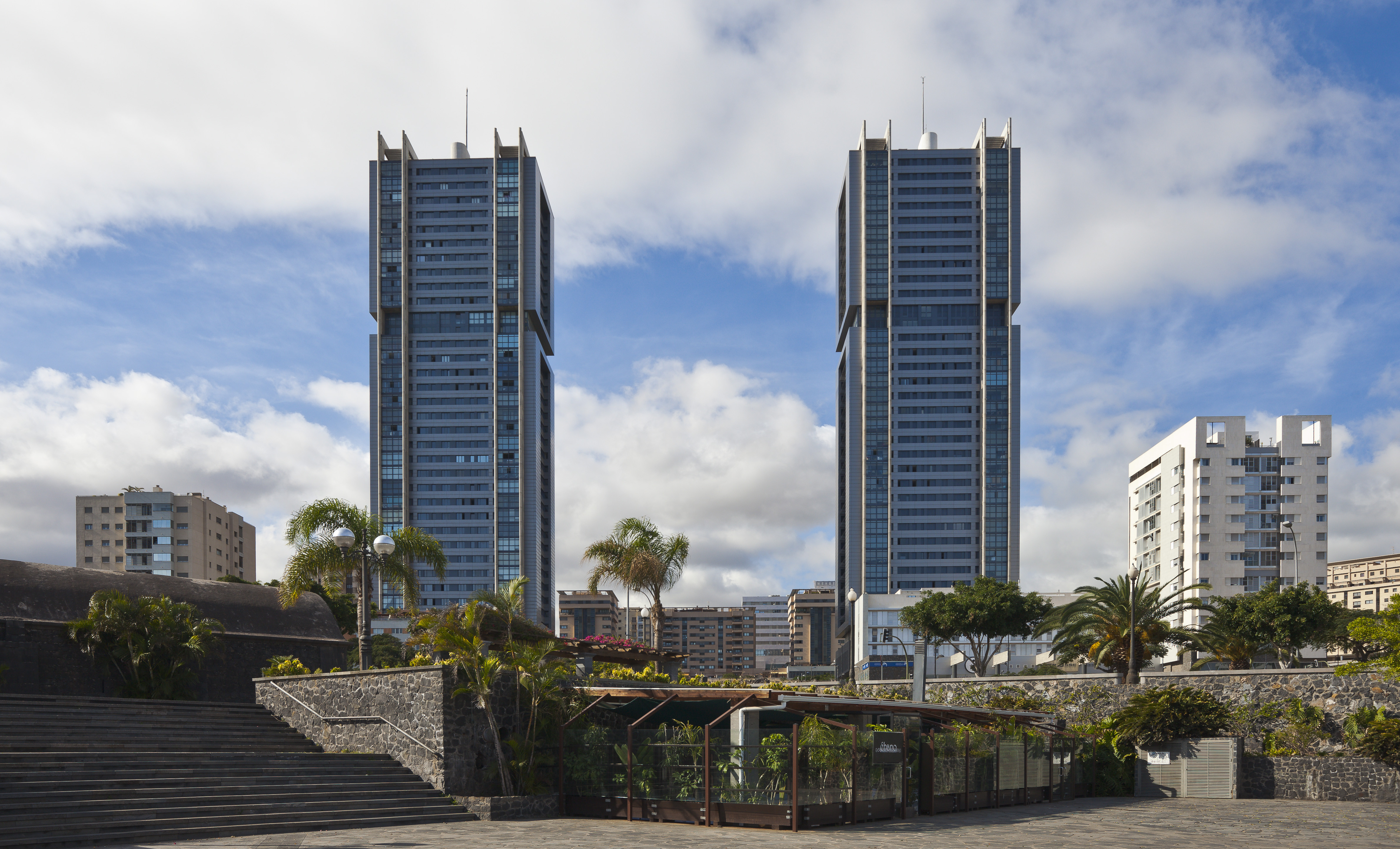 Towers of Santa Cruz, Santa Cruz de Tenerife, Spain